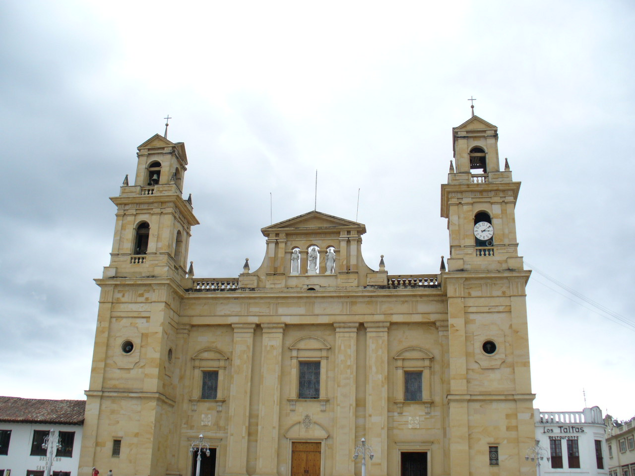 Basilica of Our Lady of the Rosary of Chiquinquirá